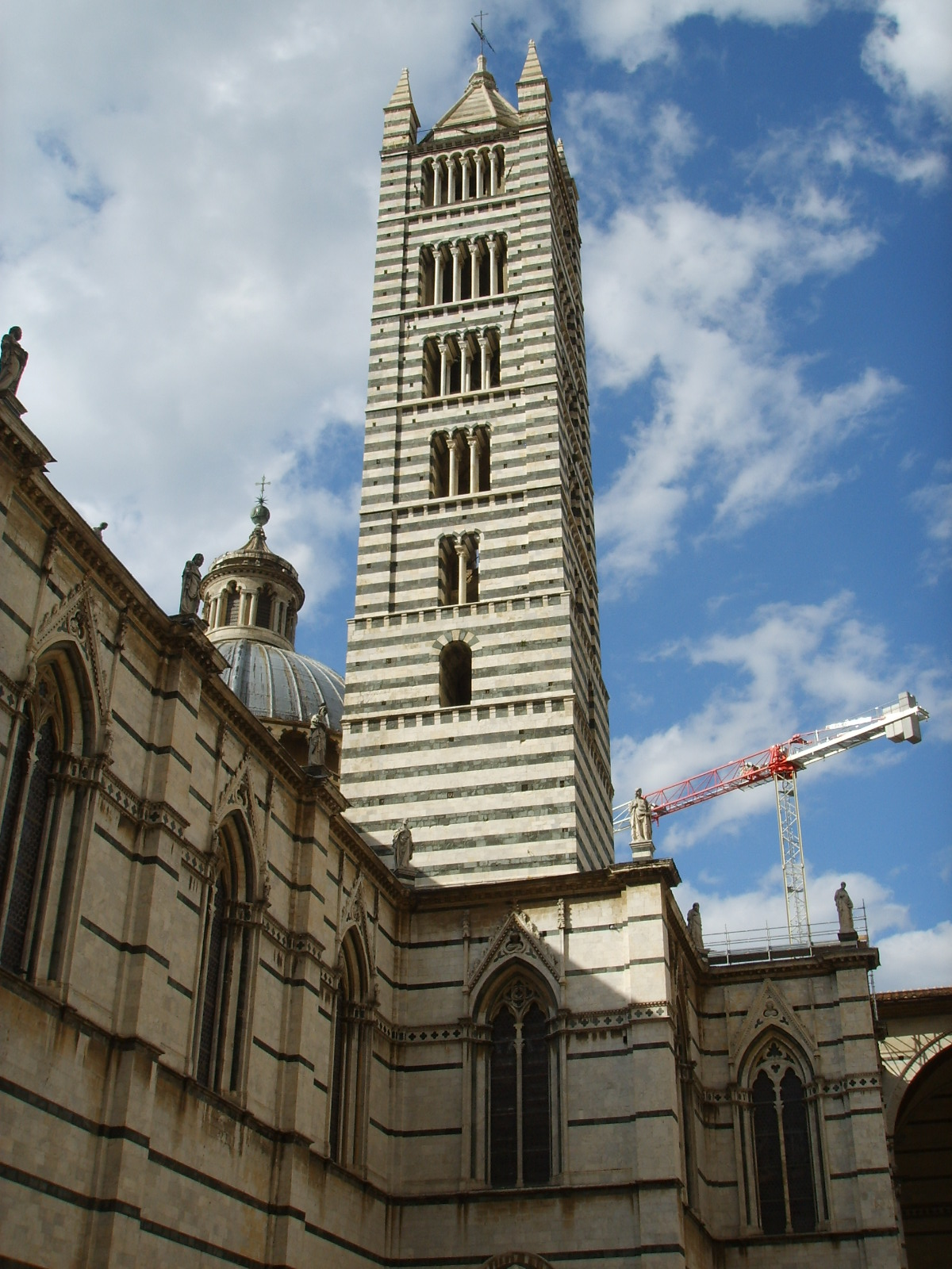 Cathedral belltower, in Siena, Italy